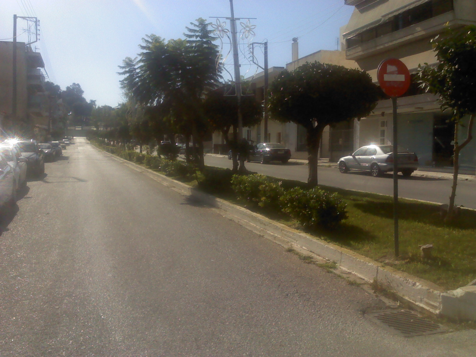 Rue G.Gennimata Nea Palatia